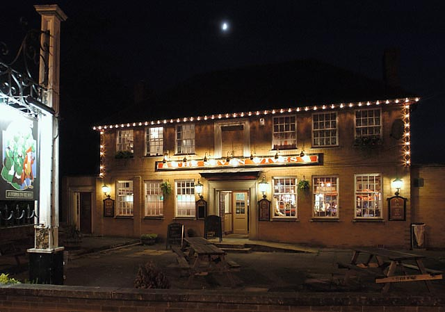 Exterior of the Seven Wives public house in St Ives, Cambridgeshire (formerly Huntingdonshire), on a summer's night.